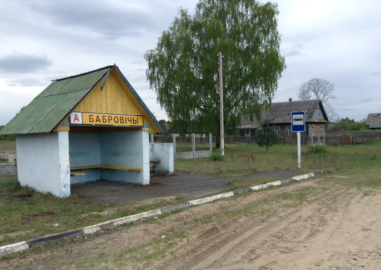 bus-stop at the Babrovičy village (Brest Region, Belarus) Беларуская (тарашкевіца): аўтобусны прыпынак у вёсцы Бабровічы (Івацэвіцкі раён, Берасьцейская вобласьць)